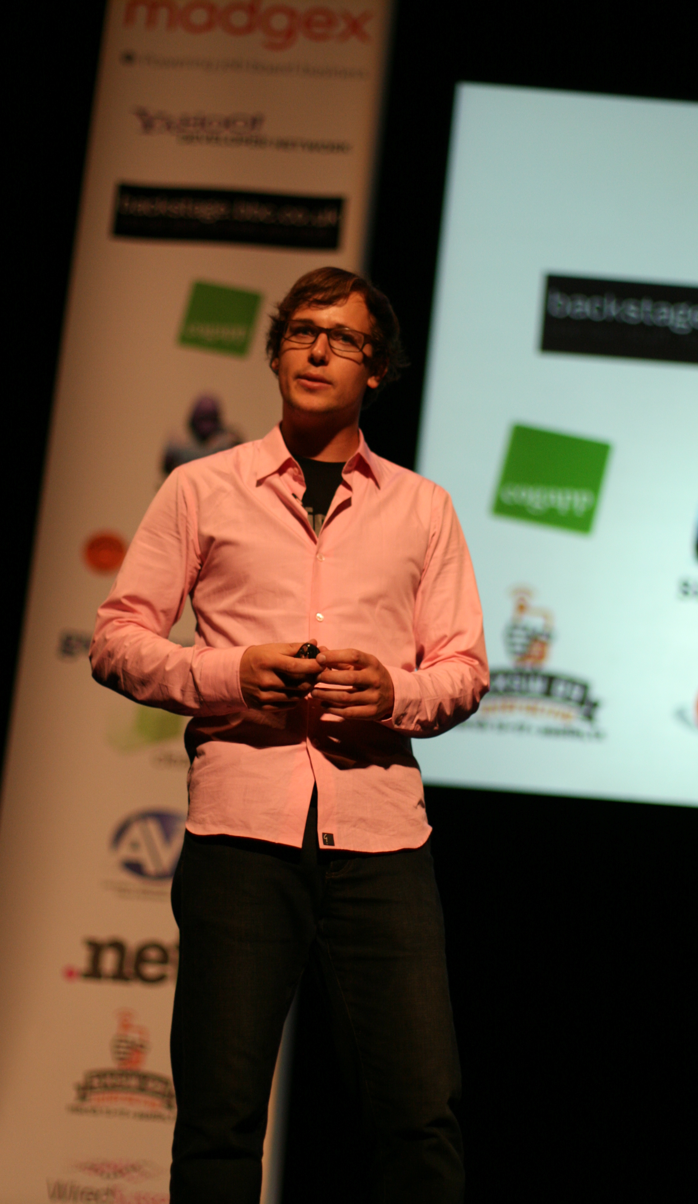 Daniel Burka at d.construct, Brighton